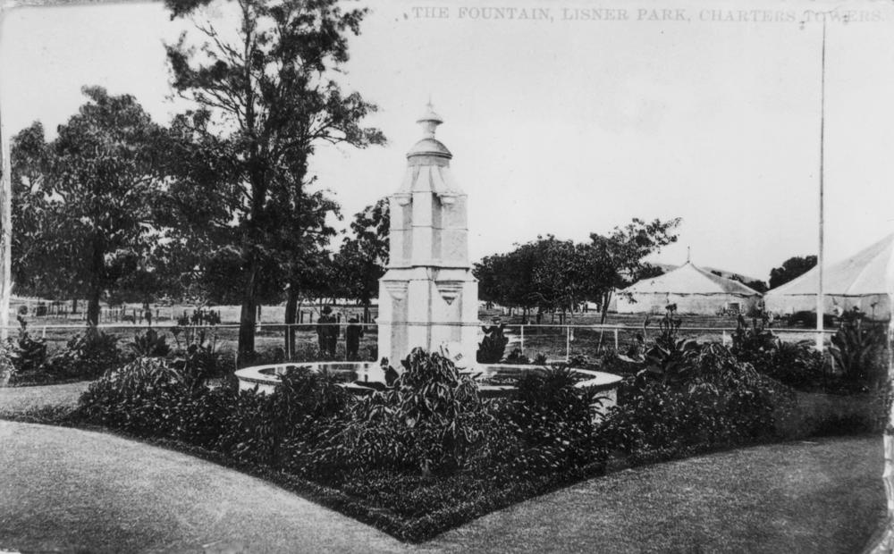 Fountain at Lissner Park, Charters Towers, Queensland, ca. 1906